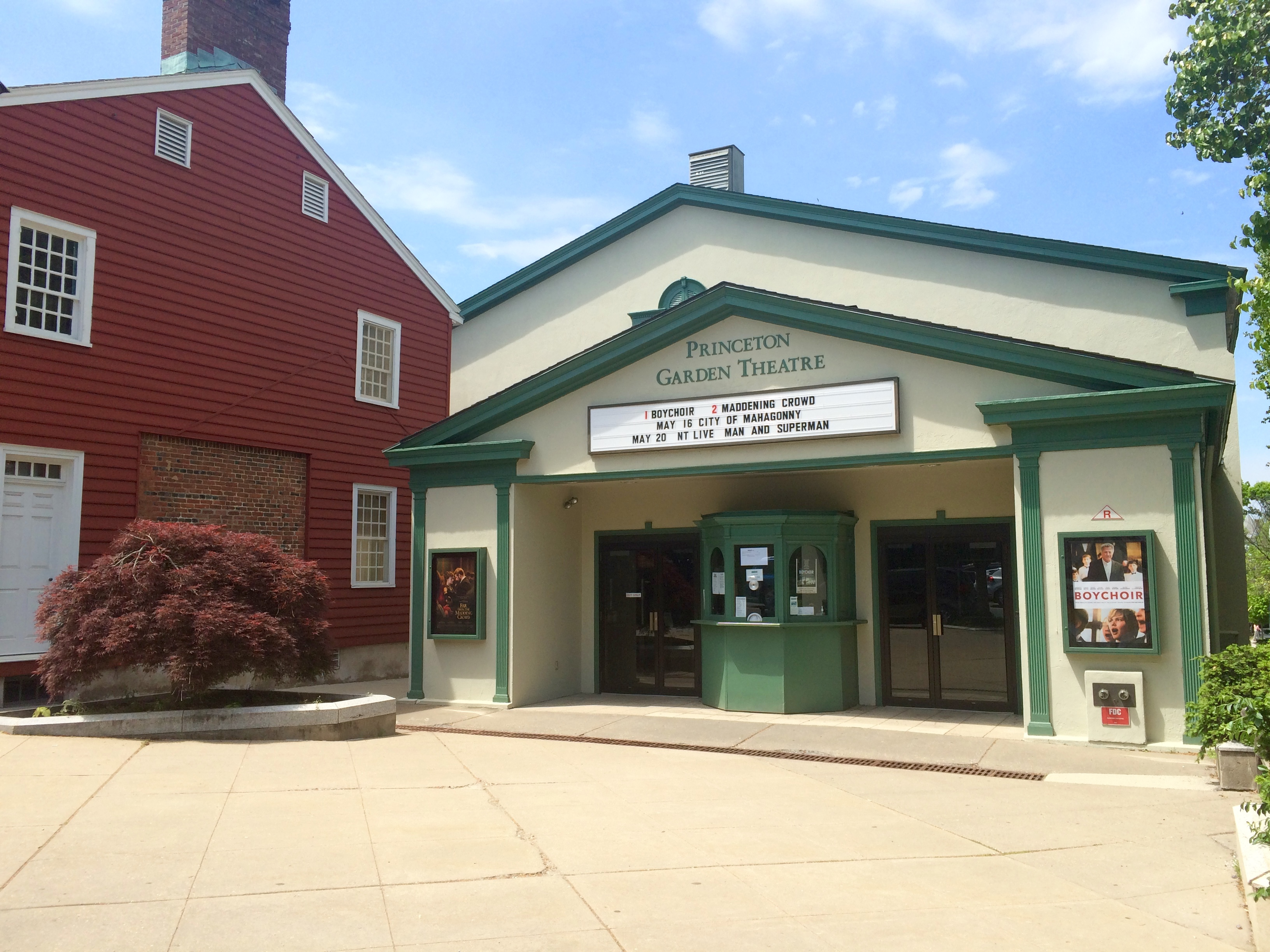 The Garden Theater on the corner of Nassau Street and Vandeventer Avenue in Princeton, New Jersey